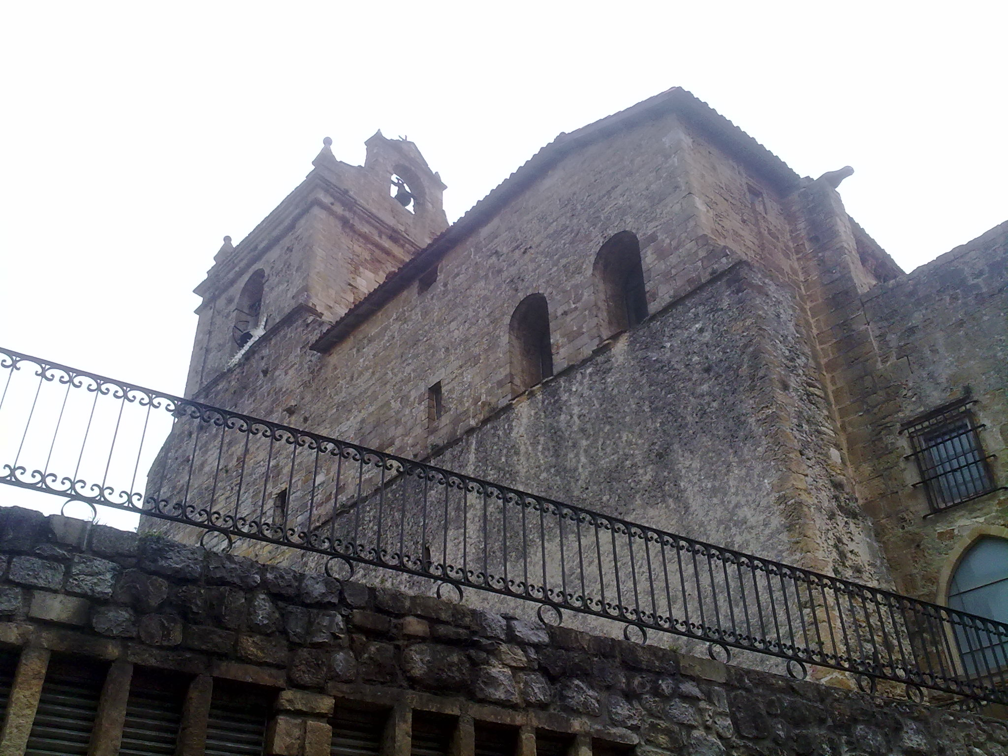 Iglesia de Laredo